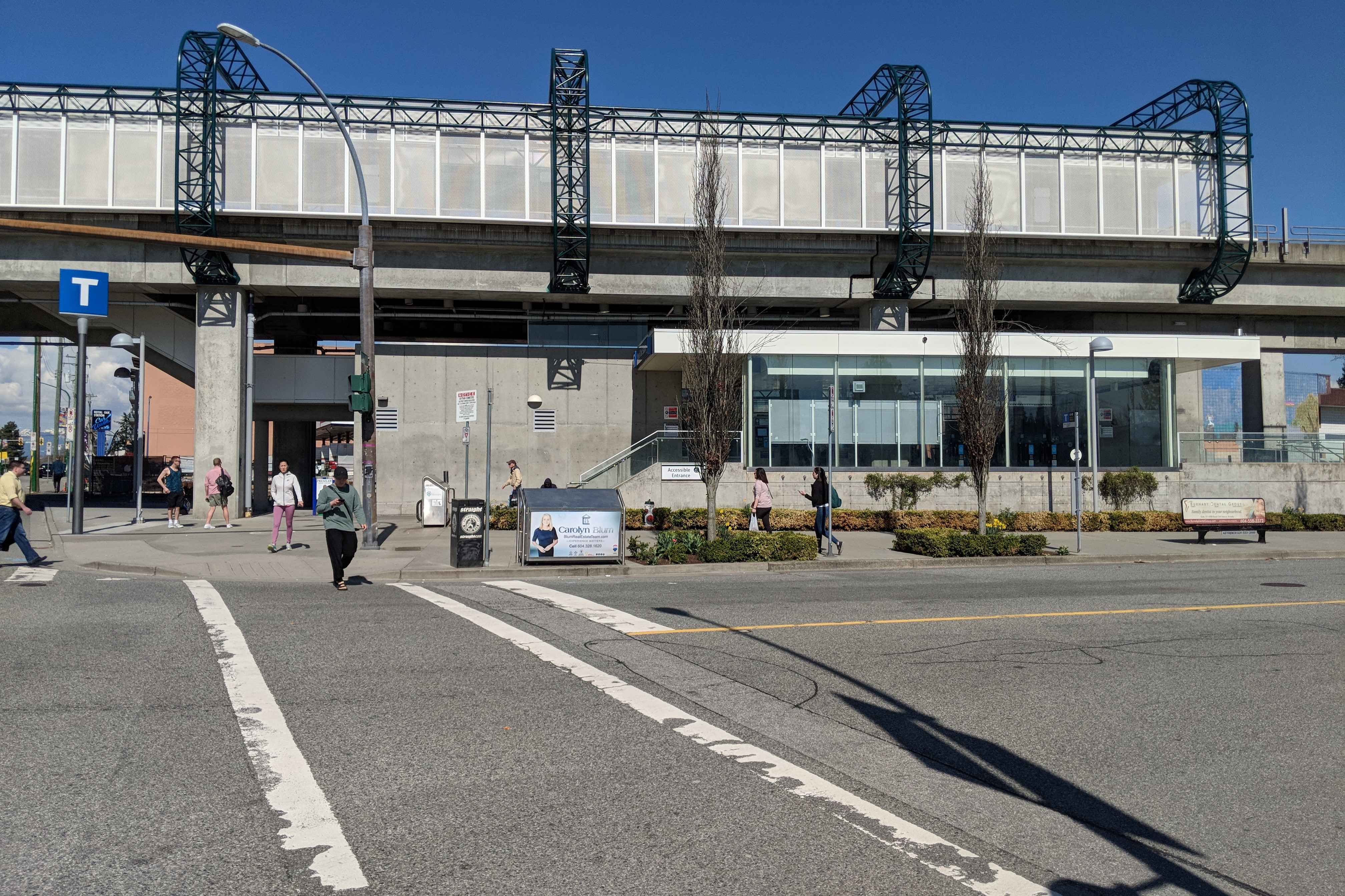 Exterior of Royal Oak station in March 2019.